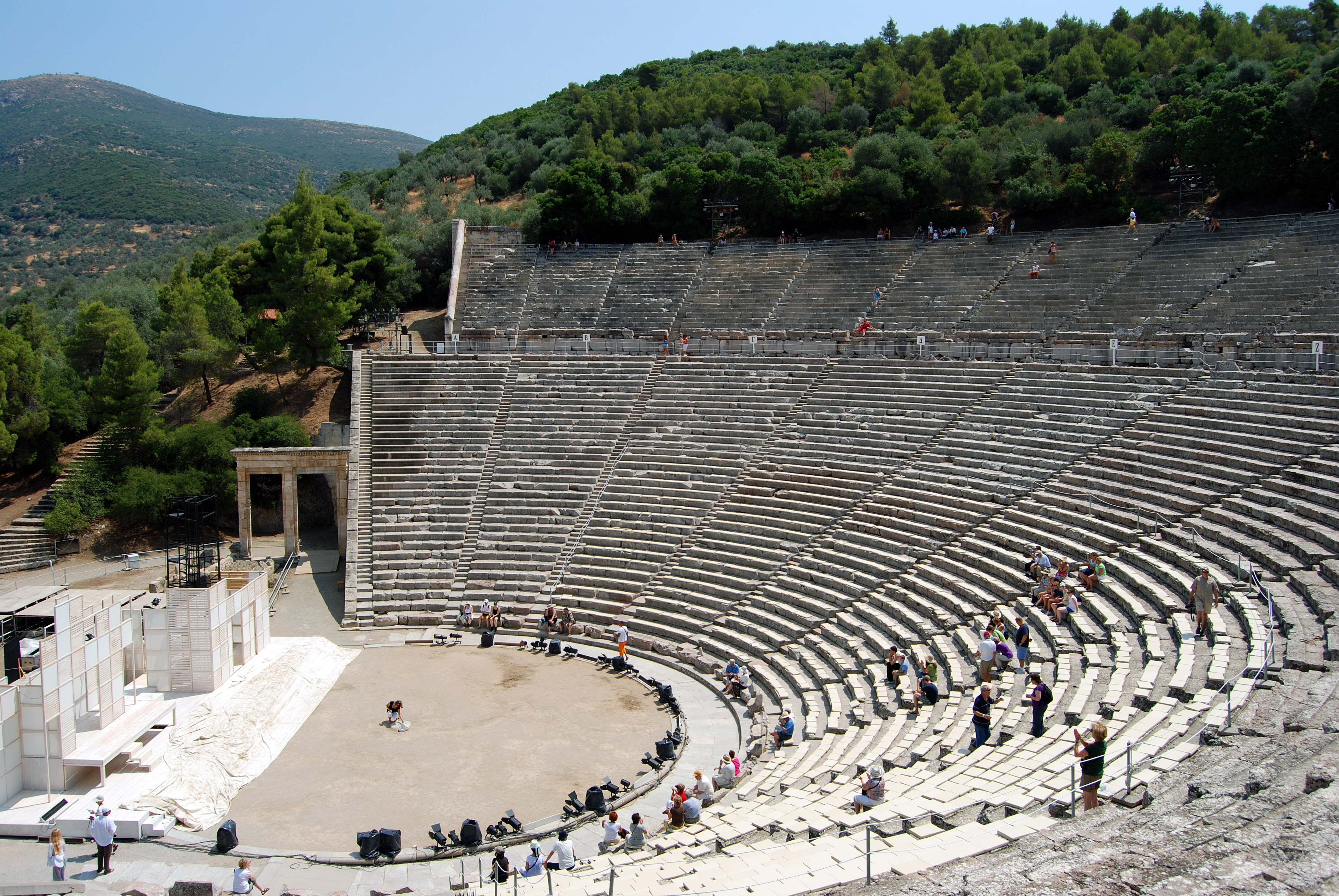 Nafplion 07 04 09_1076